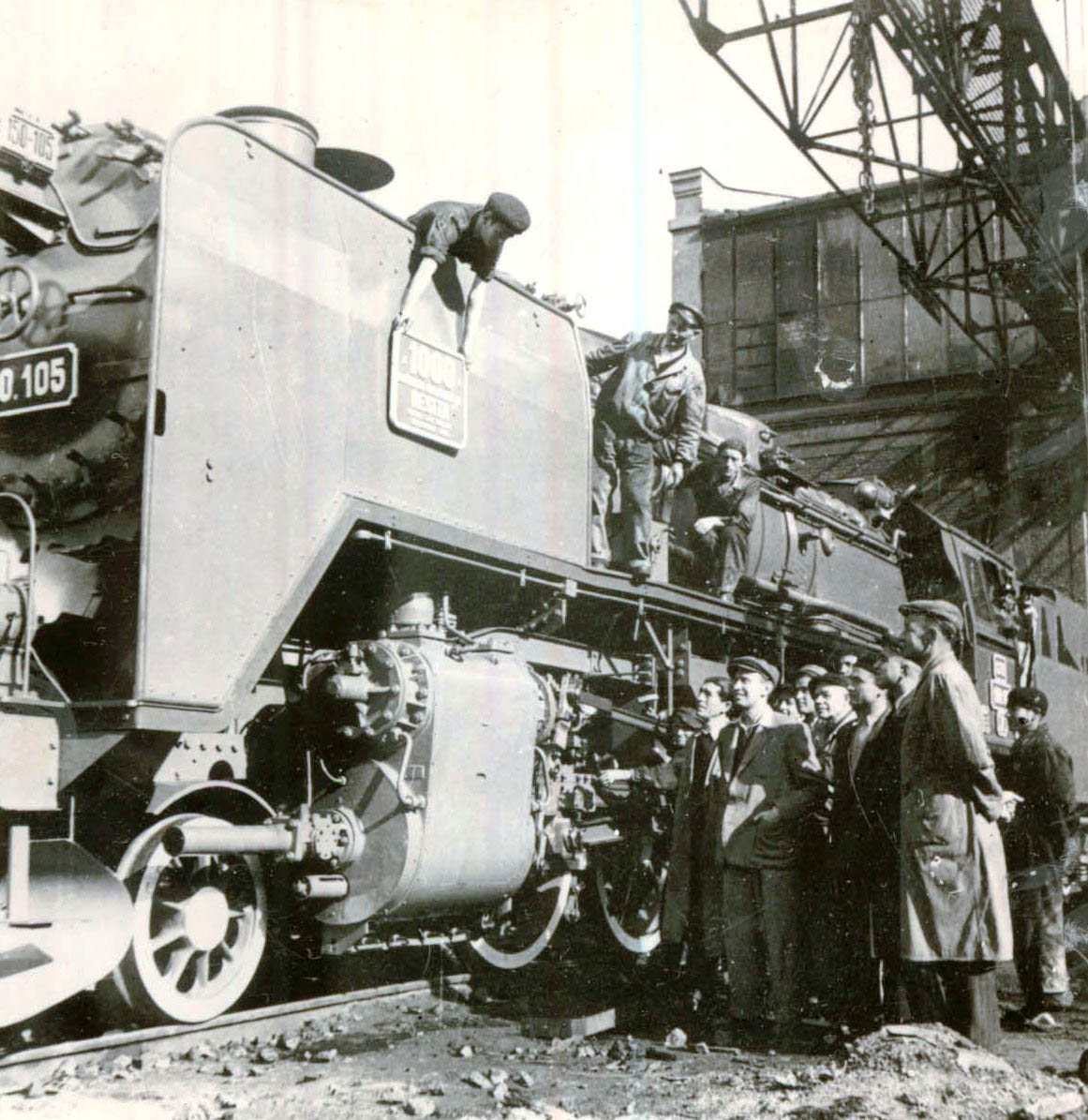 Resita workers celebrate the 1000th locomotive that has produced in the first five-year plan.